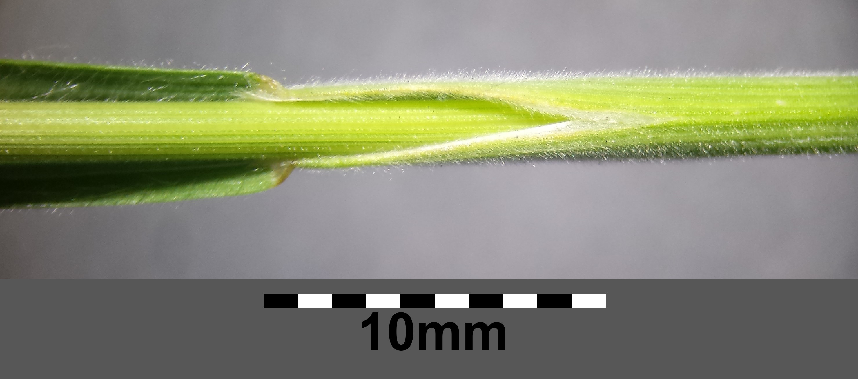 Hairy lower leaf sheat Taxonym: Bromus hordeaceus subsp. hordeaceus ss Fischer et al. EfÖLS 2008 ISBN 978-3-85474-187-9 Location: Floridsdorf rail station, Vienna-Floridsdorf - ca. 160 m a.s.l. Habitat: ruderal area